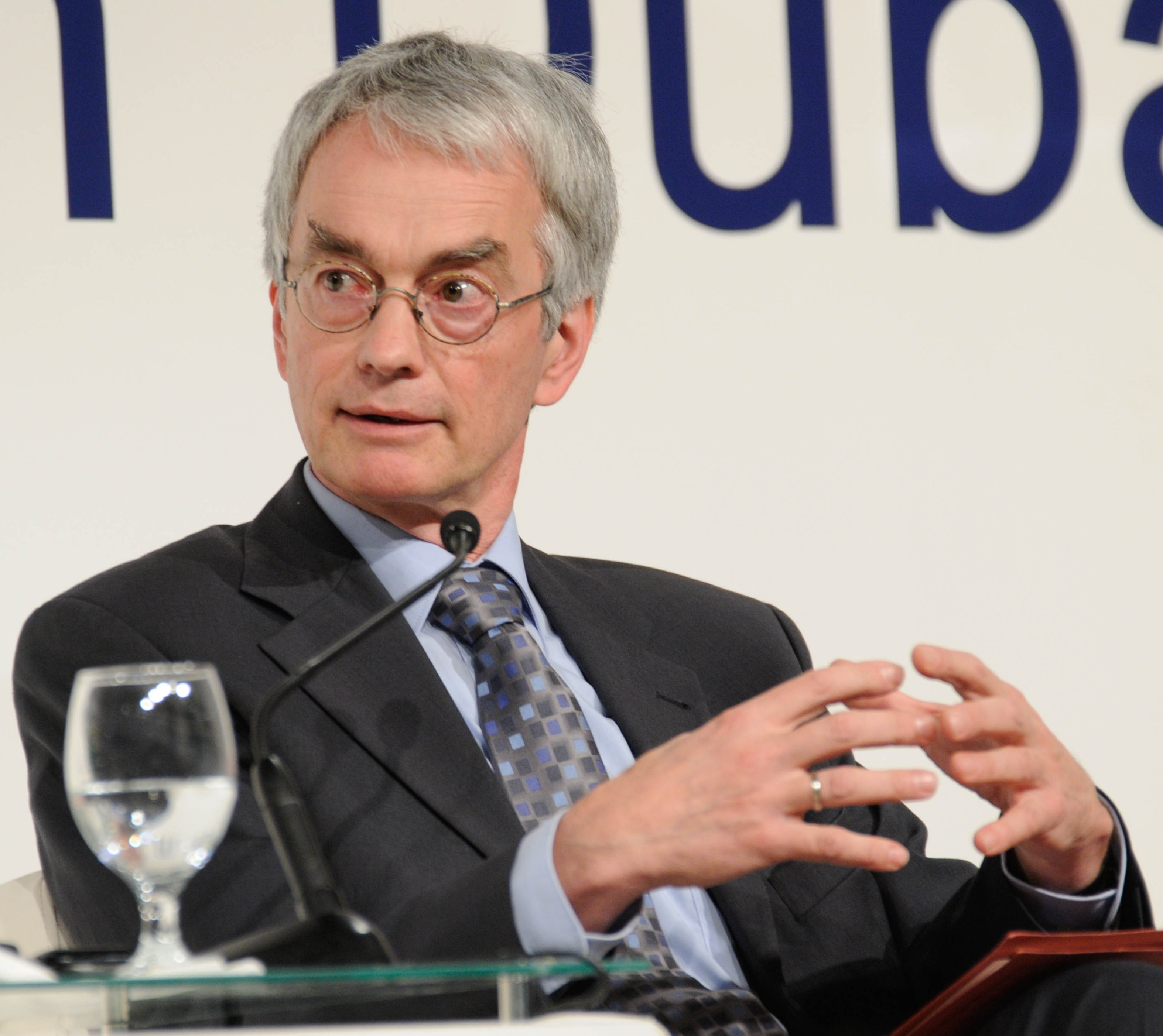 DUBAI, UNITED ARAB EMIRATES, 28NOV10 - Konrad Otto-Zimmermann, Secretary-General, ICLEI - Local Governments for Sustainability, Germany, speaks at the World Economic Forum's Open Forum 2010 held in Dubai, 28 November 2010. Copyright (cc-by-sa) © World Economic Forum ( /Photo Norbert Schiller)